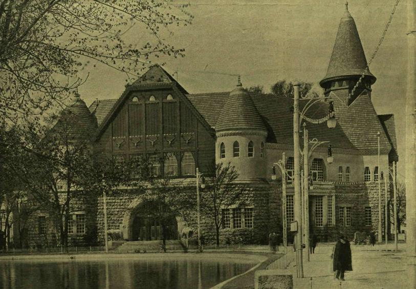 Hungarian pavilion at Wiener Jagdausstellung, 1910